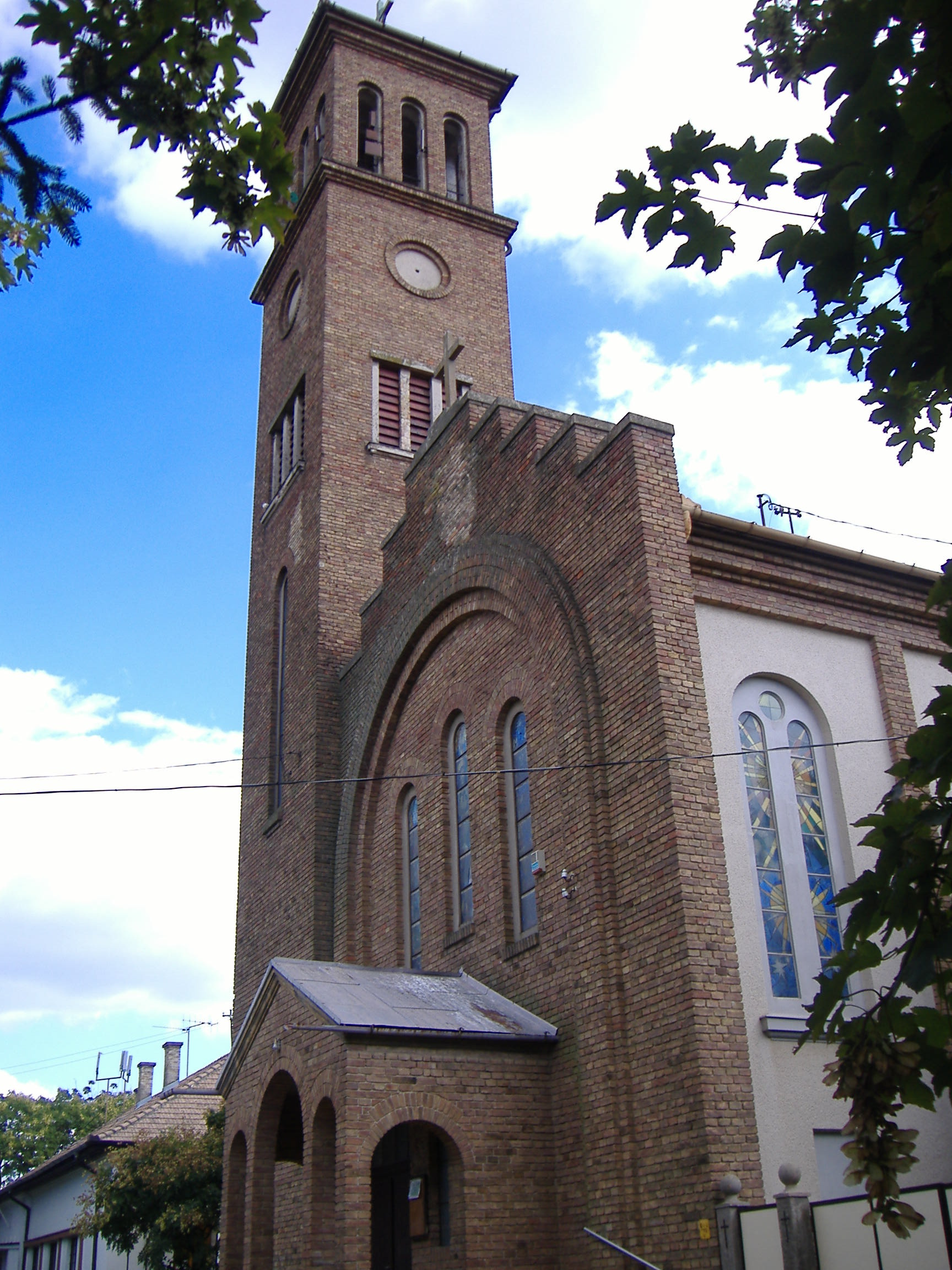 Roman catholic church in Magyarcsanád, village near Makó, Hungary. It was built in 1939 in neoroman style.